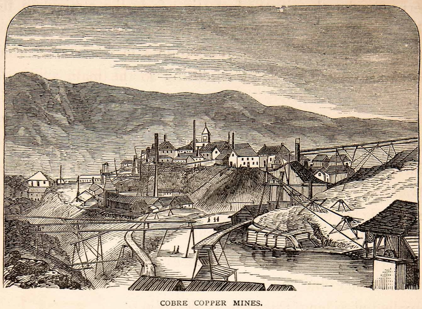 Wood Engraving of Cobre Copper Mine, Cuba